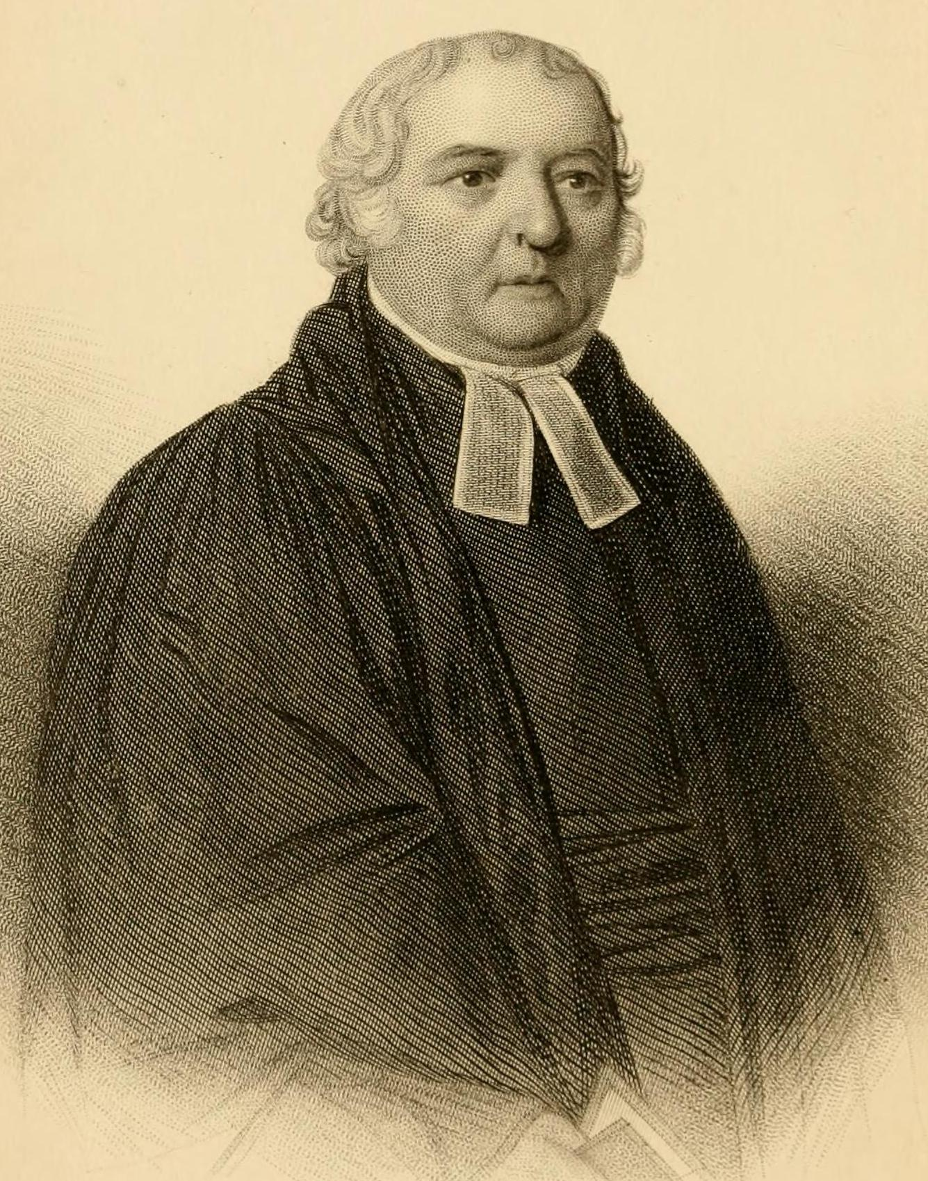 Portrait of Samuel Marsden, 1764 - 1838